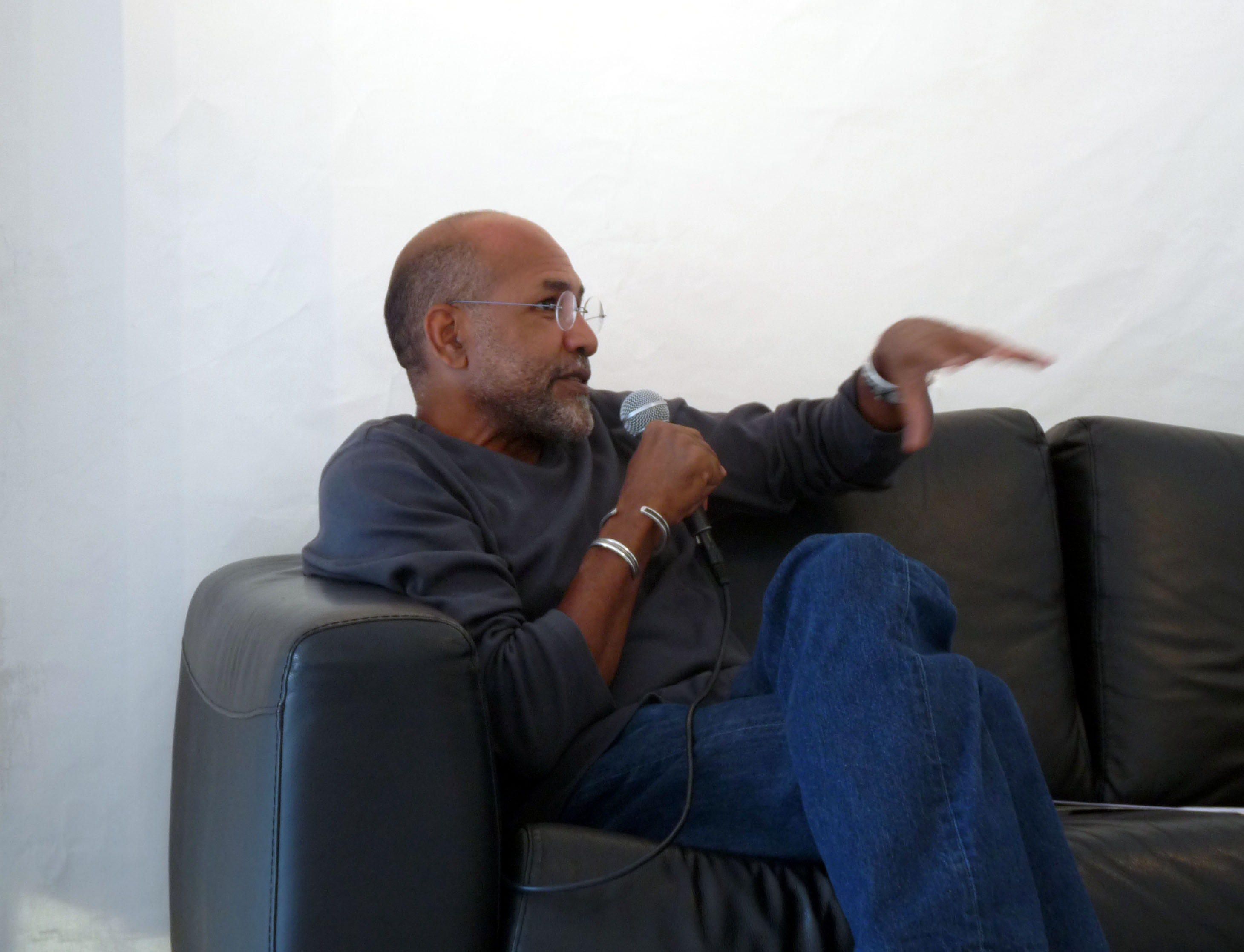 French writer Patrick Chamoiseau